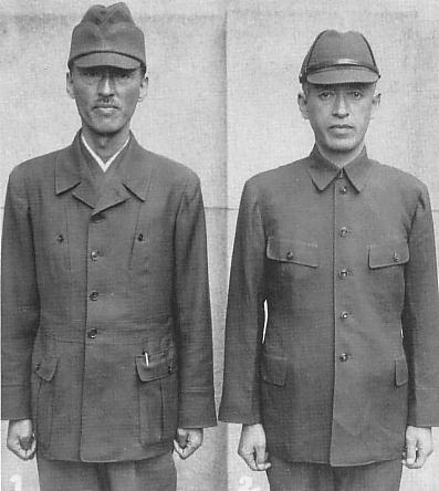 Kokumin-Fuku(National Uniform for Japanese males during 1940-1945)